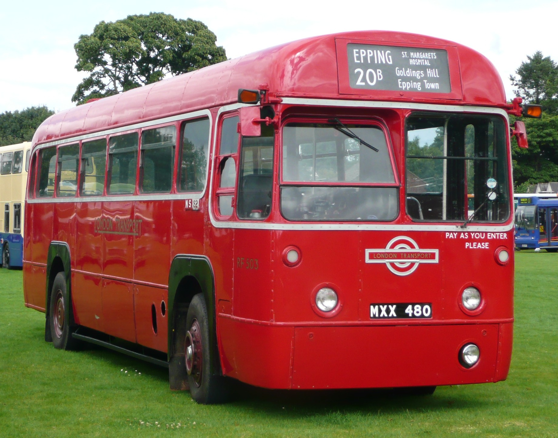 Preserved London Transport RF503 (MXX 480), an AEC Regal IV/Metro Cammell, at the 2008 Alton bus rally at Anstey Park.